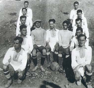 Iraklis' 1930–31 football team.